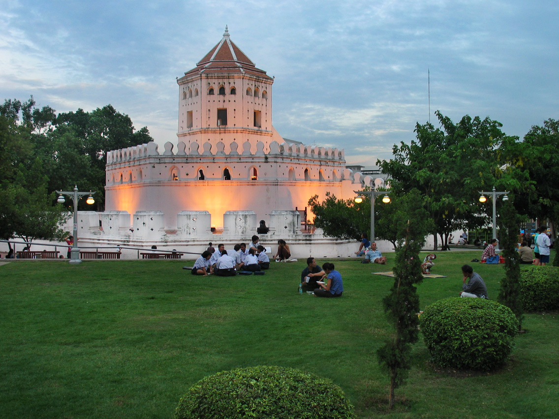 Santichaiprakarn-Park at Phra Sumen Fort (ป้อมพระสุเมรุ), Bangkok, Thailand, own photo 2003